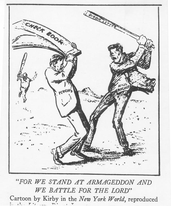 1912 US cartoon by Rollin Kirby, showing George Walbridge Perkins (with a check book symbolizing control of money) and Amos Pinchot (wielding a letter of support from Theodore Roosevelt campaign manager Senator Joseph M. Dixon) battling for control of the U.S. Progressive Party. Figure in the distance presumably represents Roosevelt coming with his "big stick" to settle things.